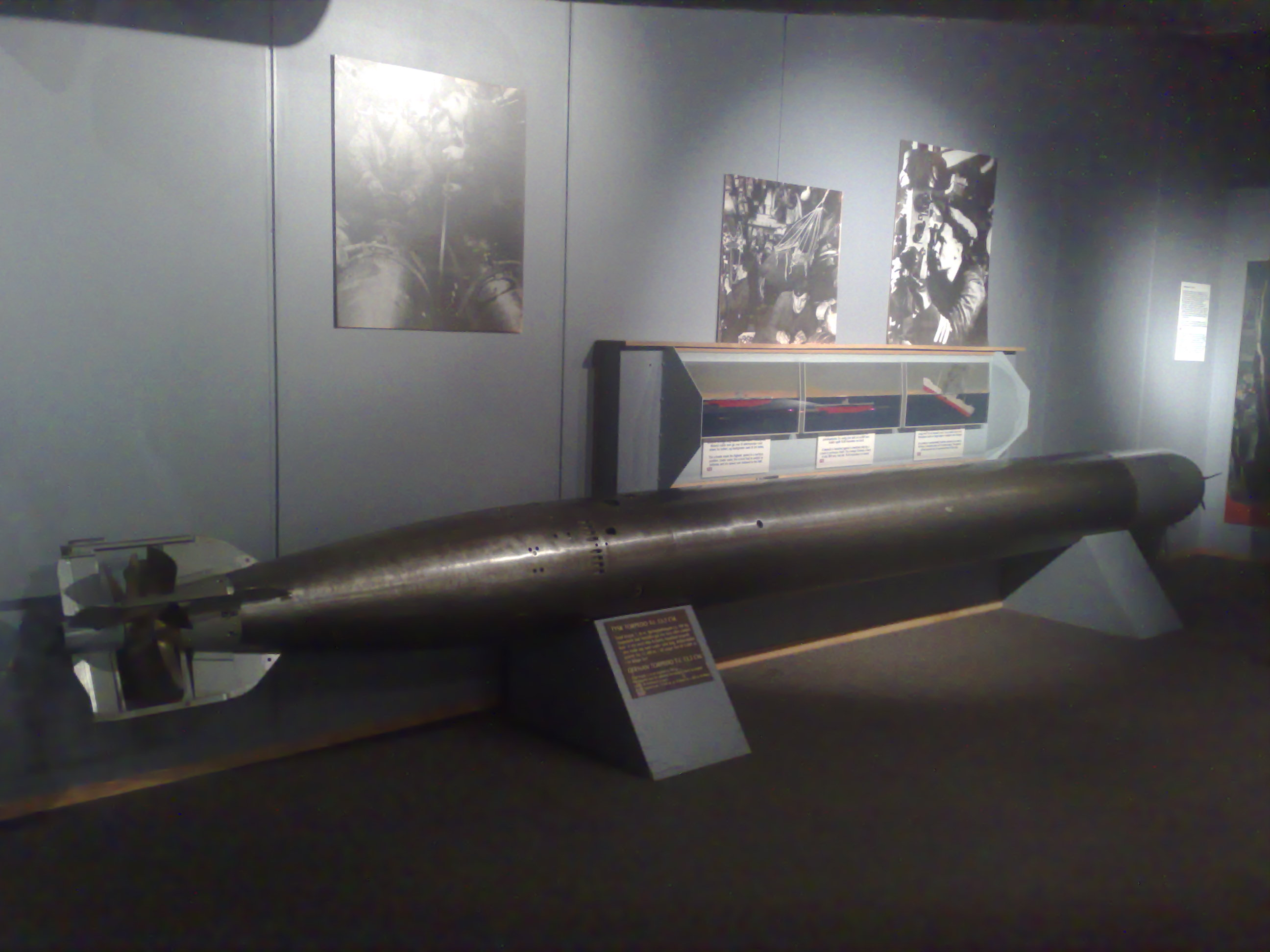 German G7a (TI) 533.4 mm torpedo Photo from Norwegian armed forces museum at Akershus castle in Oslo